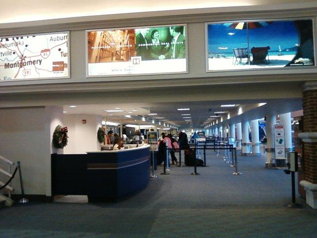 Airport check-in at Montgomery Regional Airport.